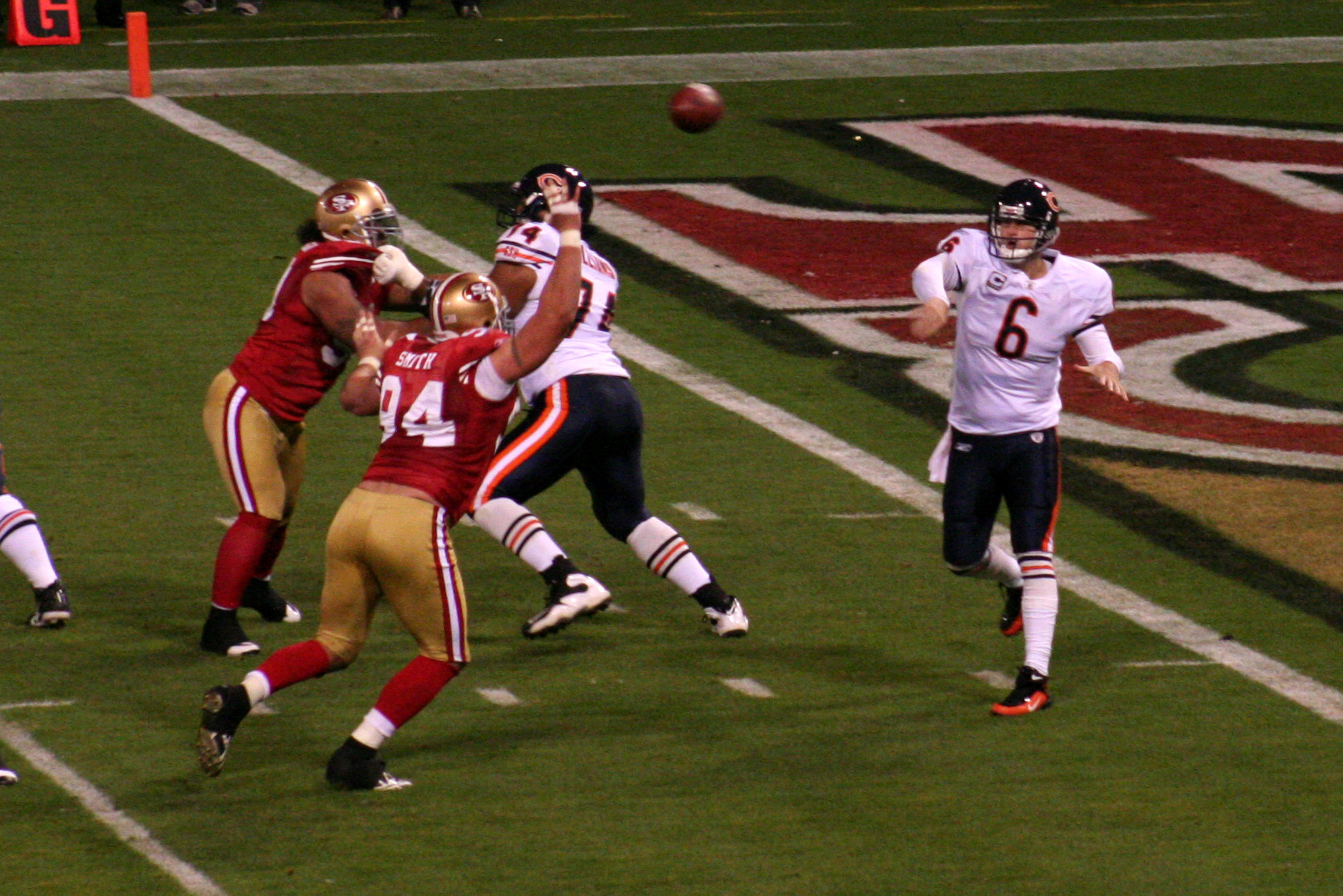 Jay Cutler throwing a pass against San Francisco 49ers in 2009